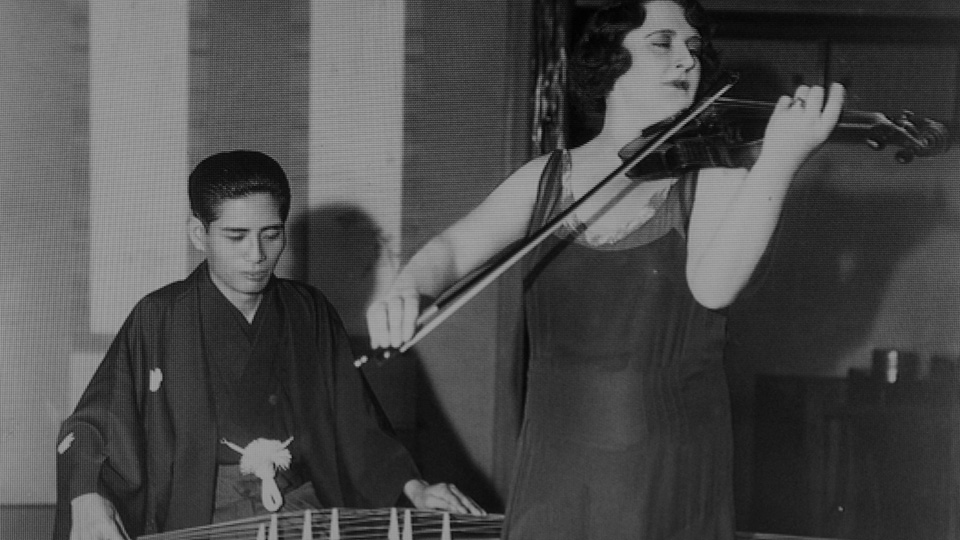 Miyagi Michio (1894-1956) and Renée Chemet (1887-1977) who play "Haru no Umi" (春の海, "The Sea in Spring") in concert at home of Miyagi.